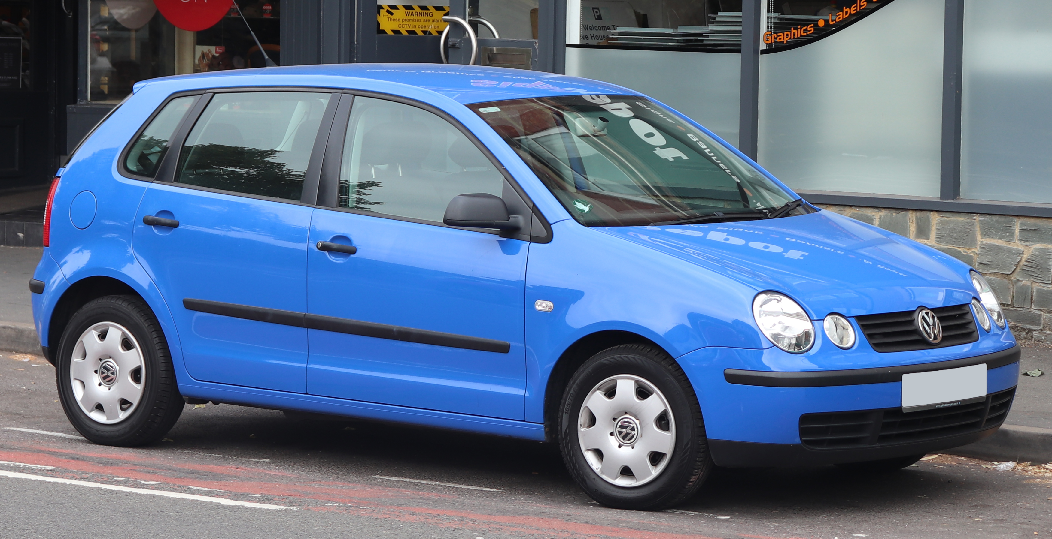 2005 Volkswagen Polo E 1.2 Front Taken in Warwick